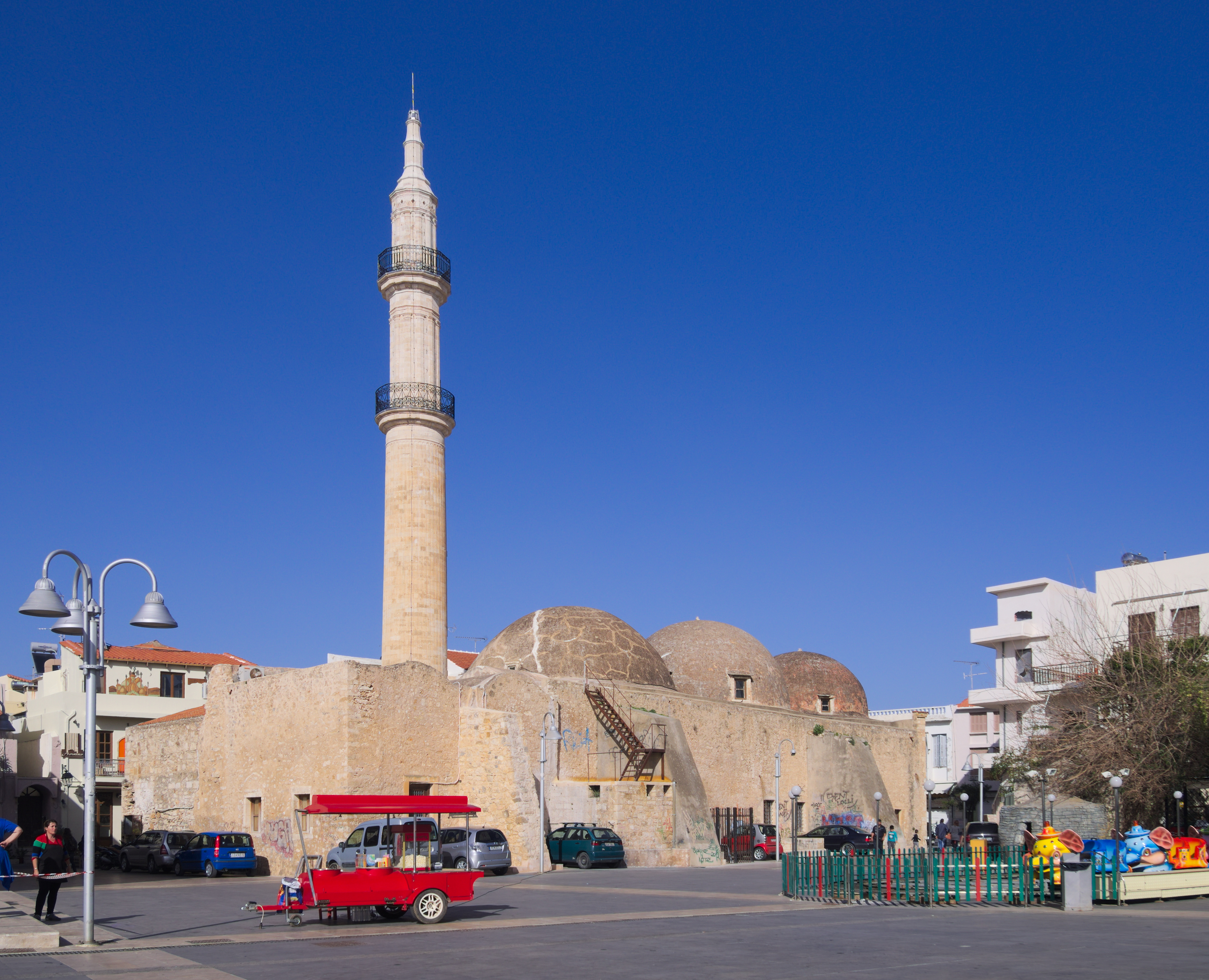 Neratzes mosque, Rethymno, after the removal of the scaffolding of the minaret and during the carnival.